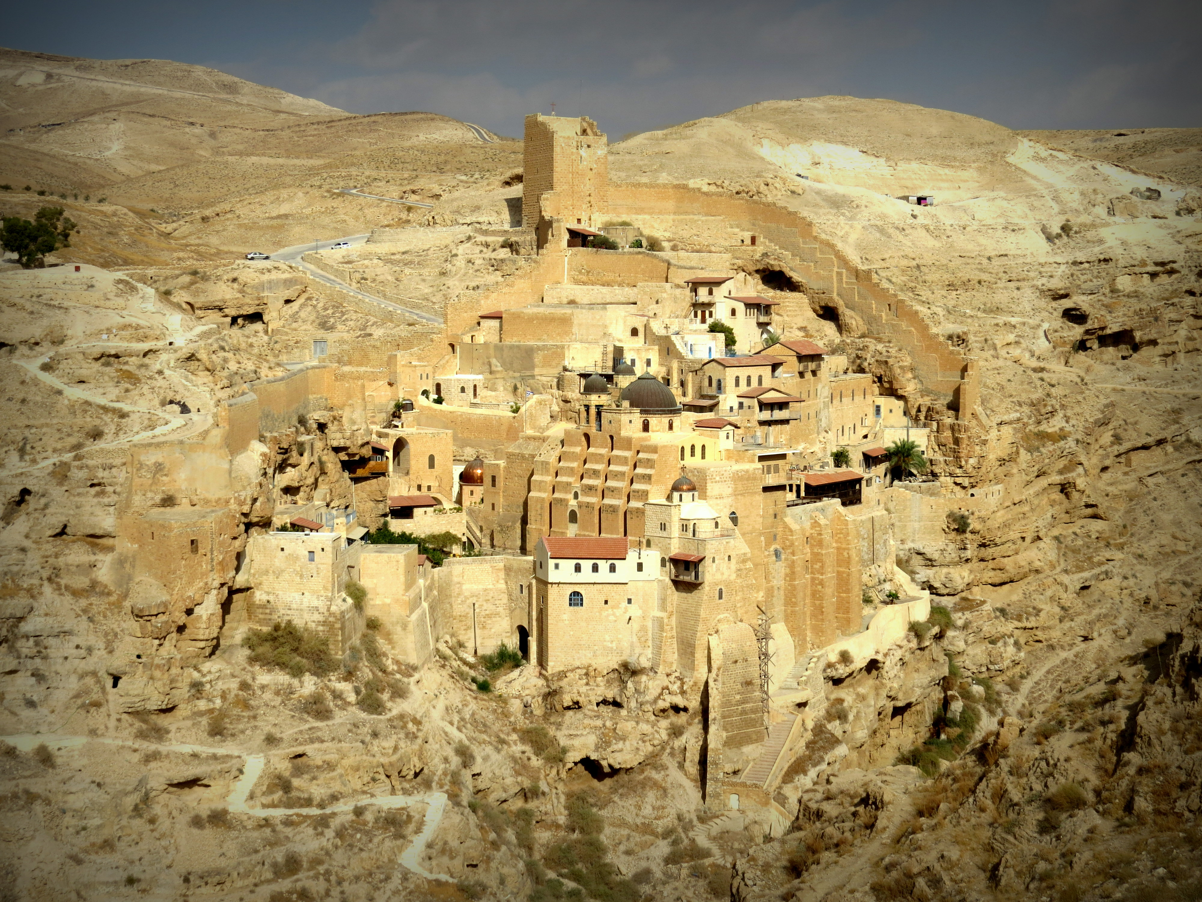 Mar Saba: The Holy Lavra of Saint Sabbas the Sanctified, known in Arabic as Mar Saba (Arabic: دير مار سابا; Hebrew: מנזר מר סבא; Greek: Ἱερὰ Λαύρα τοῦ Ὁσίου Σάββα τοῦ Ἡγιασμένου; Romanian: Sfântul Sava), is an Eastern Orthodox Christian monastery overlooking the Kidron Valley at a point halfway between the Old City of Jerusalem and the Dead Sea, within the Bethlehem Governorate of the West Bank.